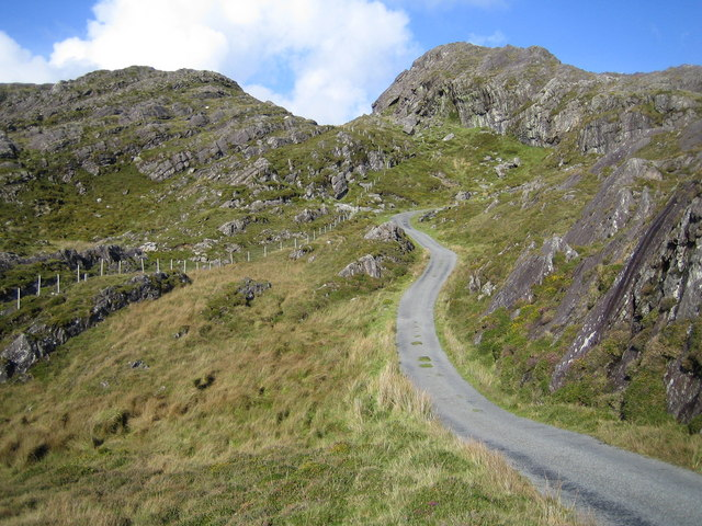 Beara Way The Beara Way follows this road, past the old copper mine workings, from Allihies towards Eyeries through a pass over the Slieve Miskish Mountains. The road just clips across the south-eastern corner of this grid square.